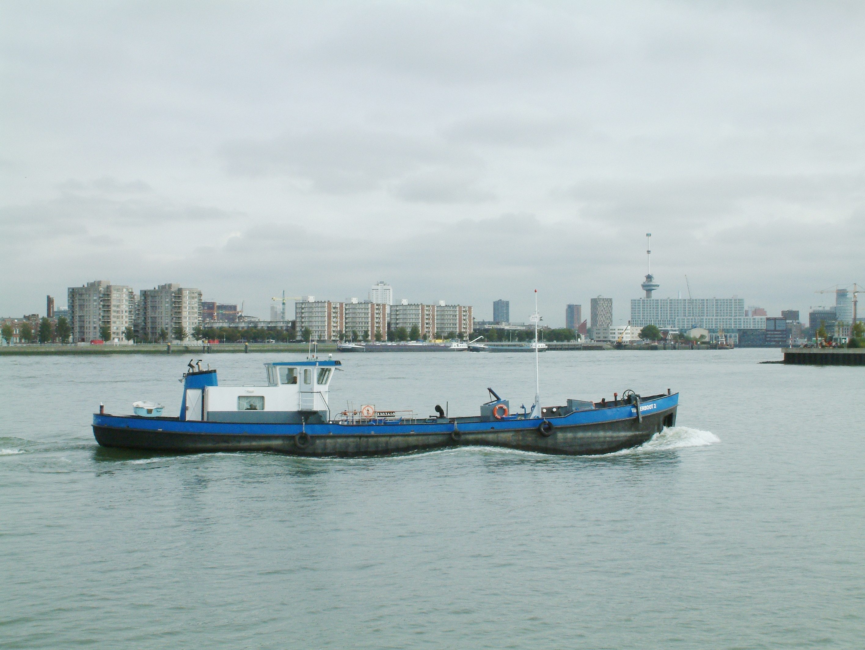 Waterboat "Waterboot 2" (1950, 29,9 m, capacity 225 m3) in the harbour of Rotterdam